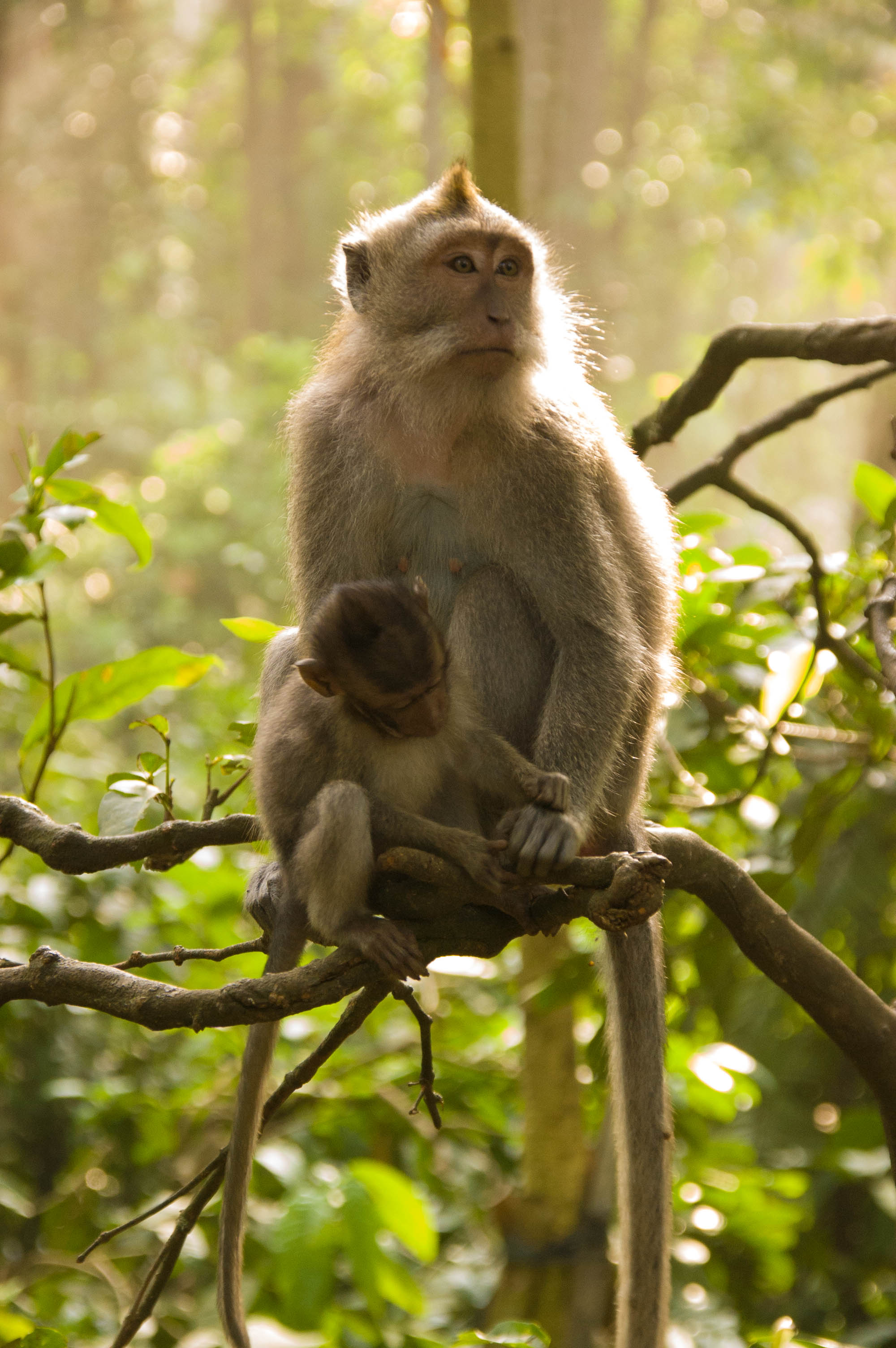 Macaca fascicularis in Sacred Monkey Forest, Ubud, Bali, Indonesia.